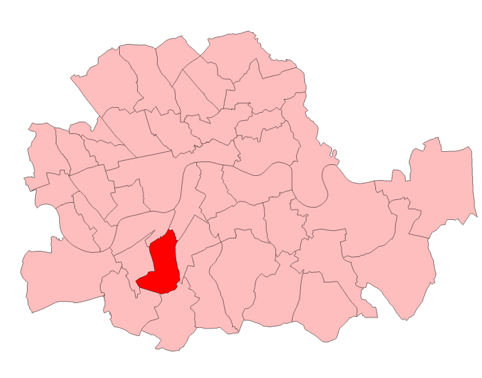 A map of Clapham constituency within the London County Council area, as it existed from 1950 to 1974.